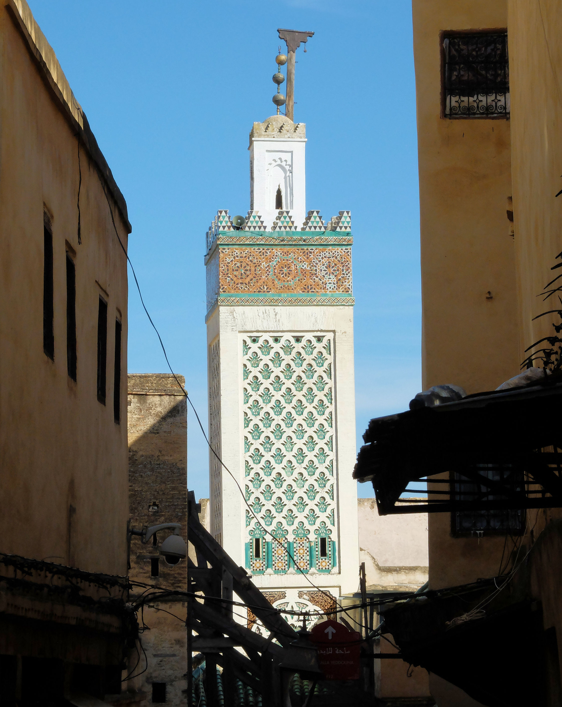 Minaret of the Chrabliyine Mosque on Tala'a Kbira street, Fes.